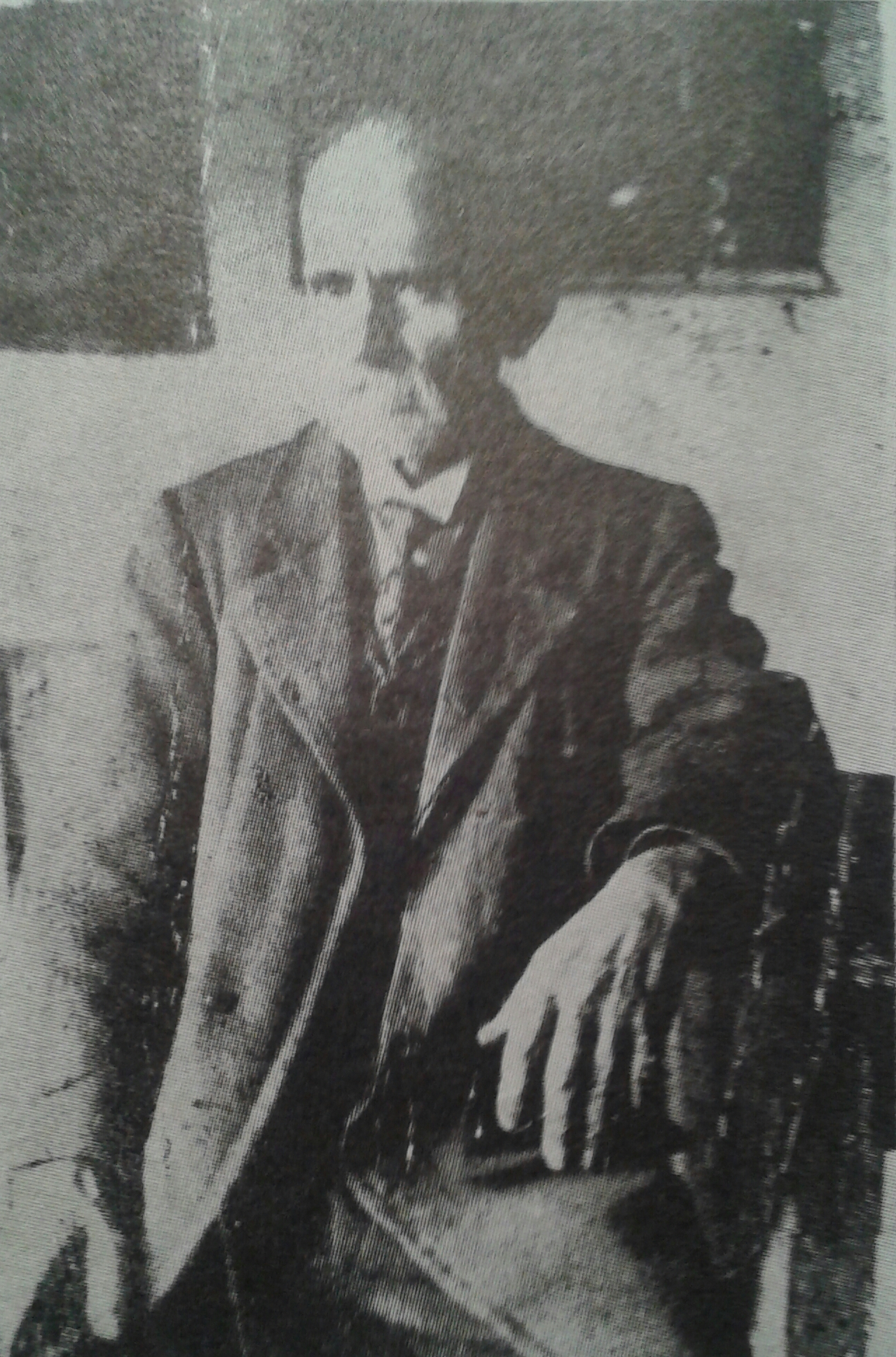 Yakov Zografski